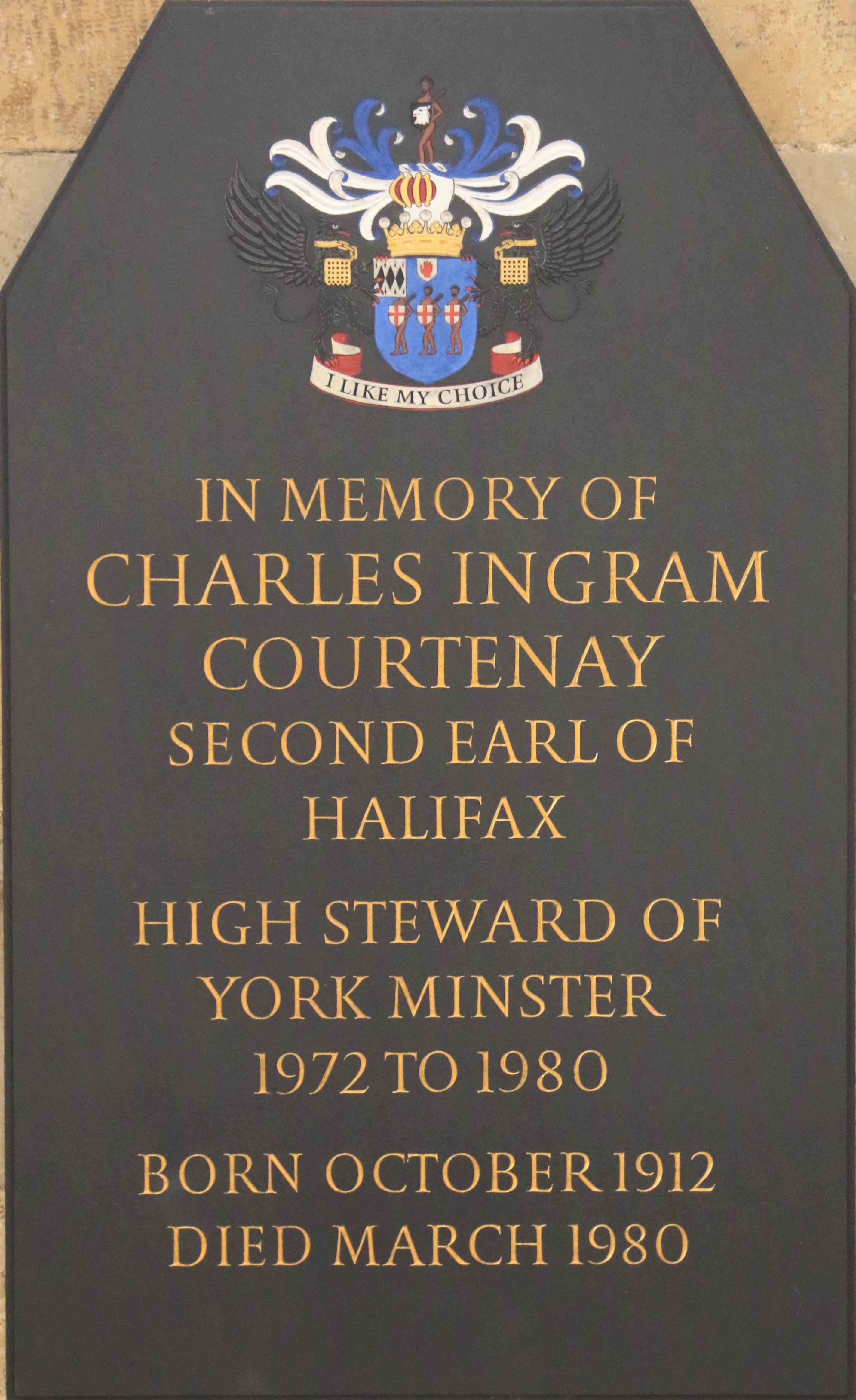 Charles Ingram Courtenay Wood, 2nd Earl of Halifax. (1912-1980), York Minster. He was High Steward of York Minster 1972 to 1980.